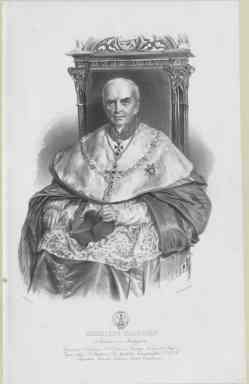 Irme of Palugyay (1780-1858). Bishope of Nitra. Hungary